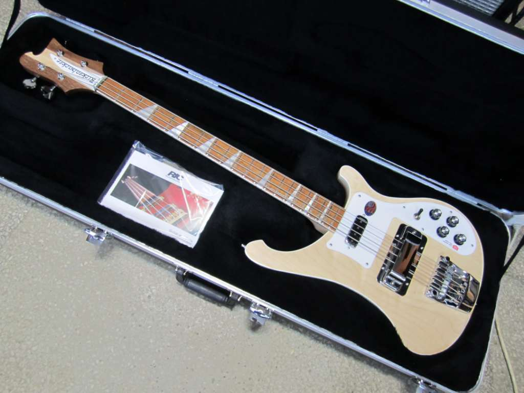 Rickenbacker 4003